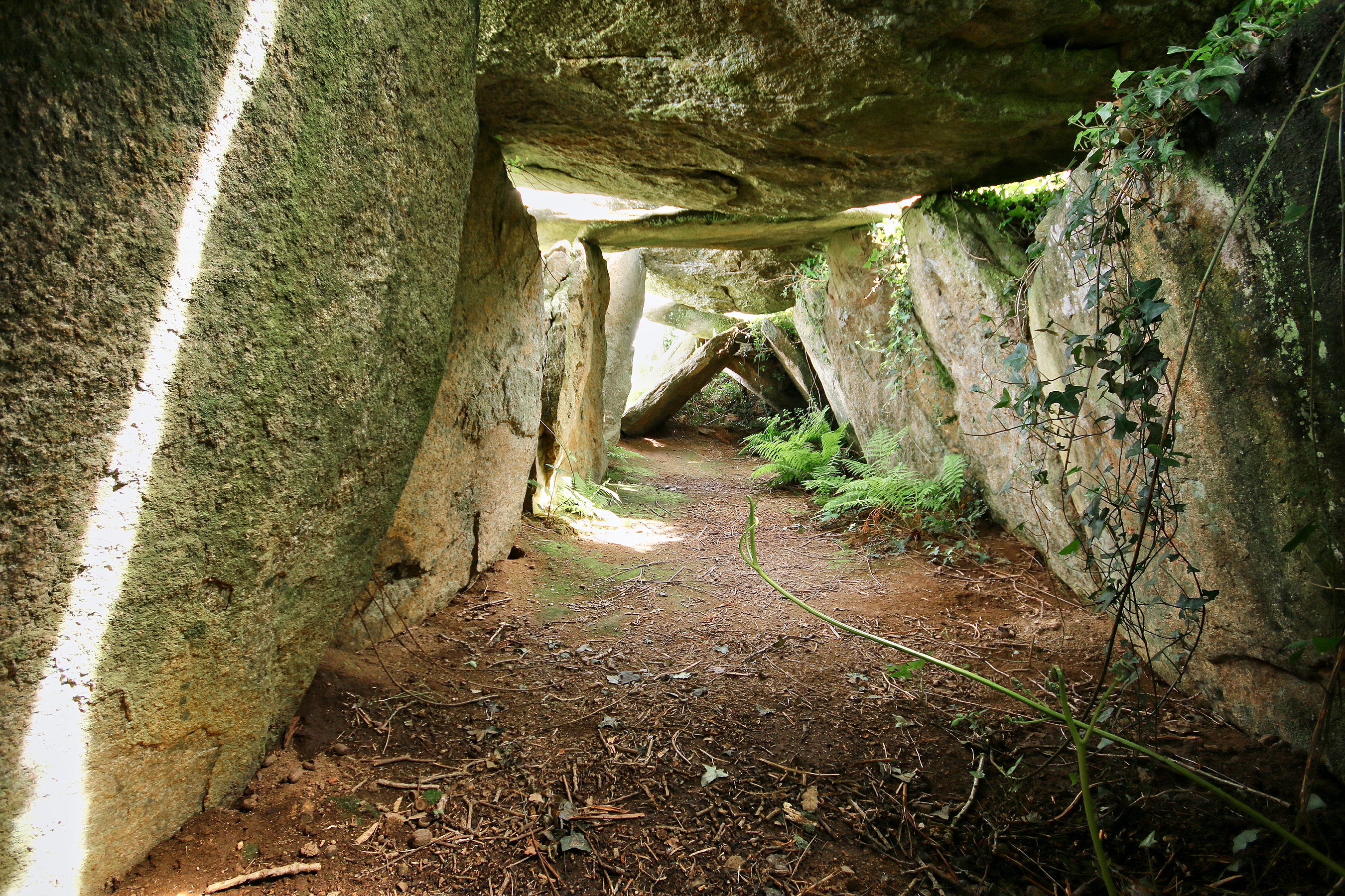 Beuzec-Cap-Sizun